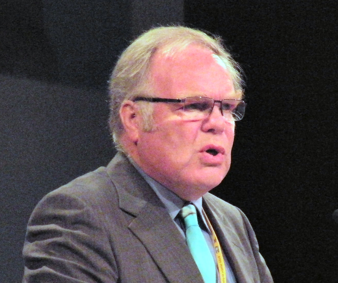 David Shutt, Baron Shutt of Greetland, addressing a Liberal Democrat conference in the Bournemouth International Centre